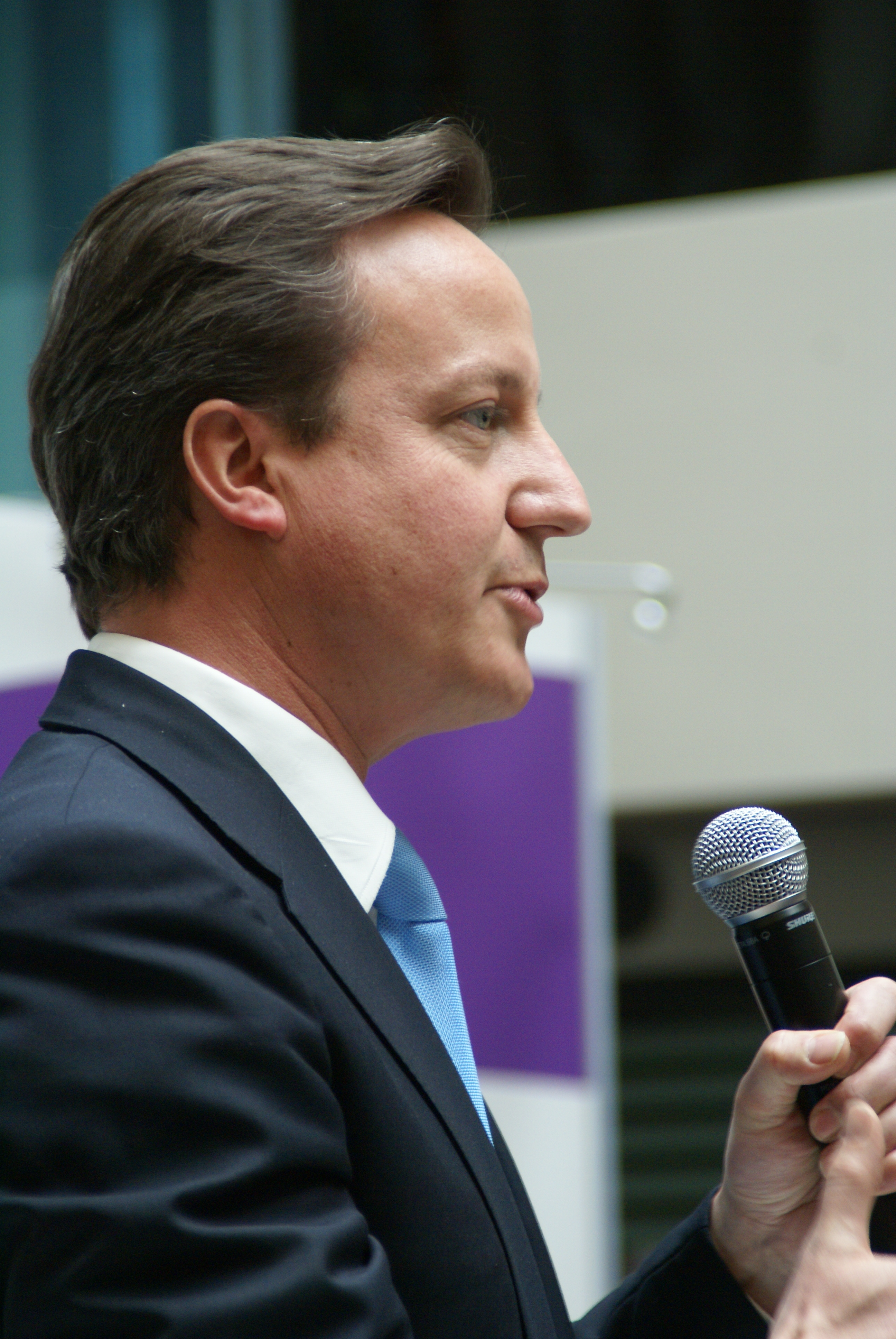 Prime Minister David Cameron speaking to the UK Home Office, on May 13, 2010.